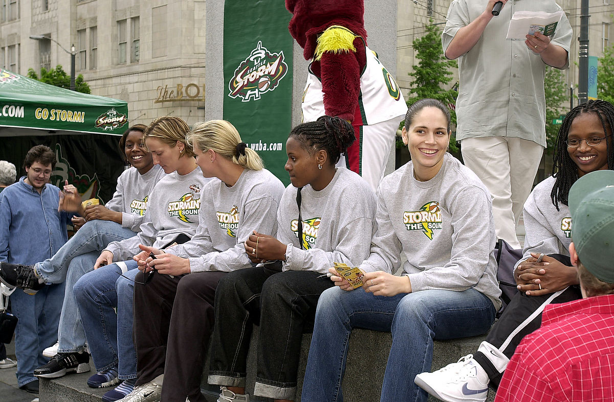 Seattle Storm players at Westlake Center, Downtown Seattle, 2002Item 130170, Fleets and Facilities Department Imagebank Collection (Record Series 0207-01), Seattle Municipal Archives.